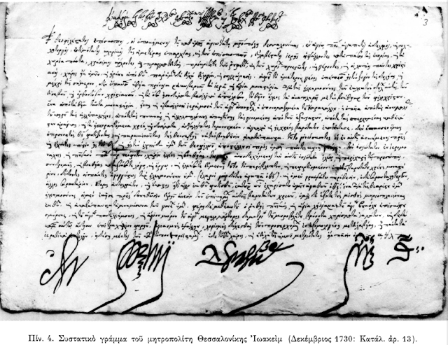 Ioakim of Thessaloniki Letter